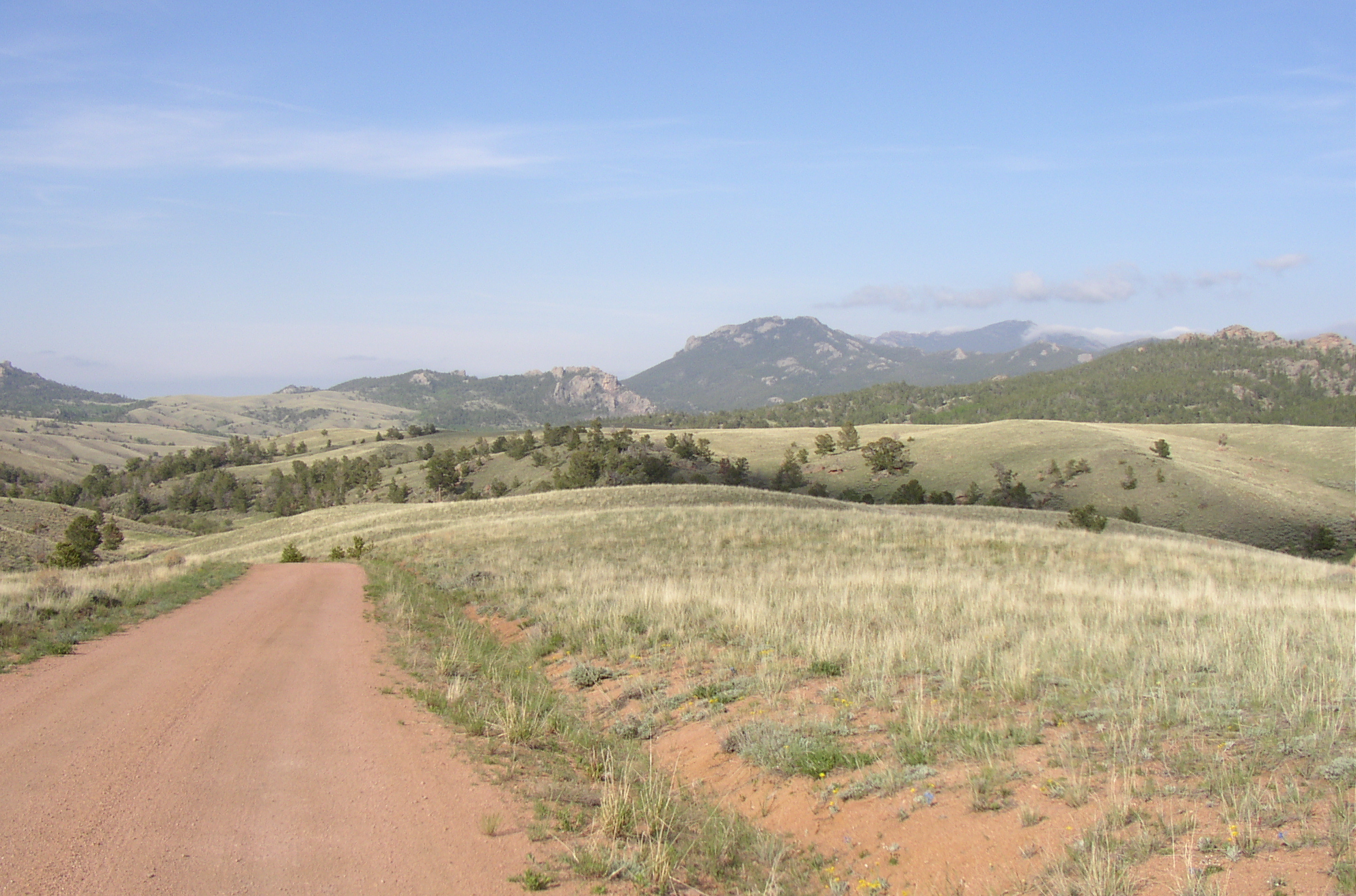 View over the Laramie Mountains close to Esterbrook, Wyoming